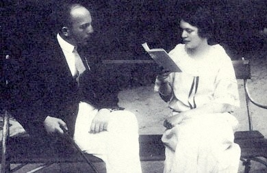 Bela Szenes and Catherine Szenes (Zaltsberger)